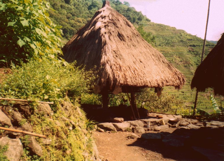 A traditional Ifugao house with the famed Batad terraces in the background. An hour by jeep from Banaue and a 3-hour hike from Bangaan, the ampitheater-like Batad terraces is said to be a lot better than the usual view seen from the Banaue view deck. Taken in 1999 with a Canon that-looks-like-a-video-camera. Film, scanned by CanoScan N340P.